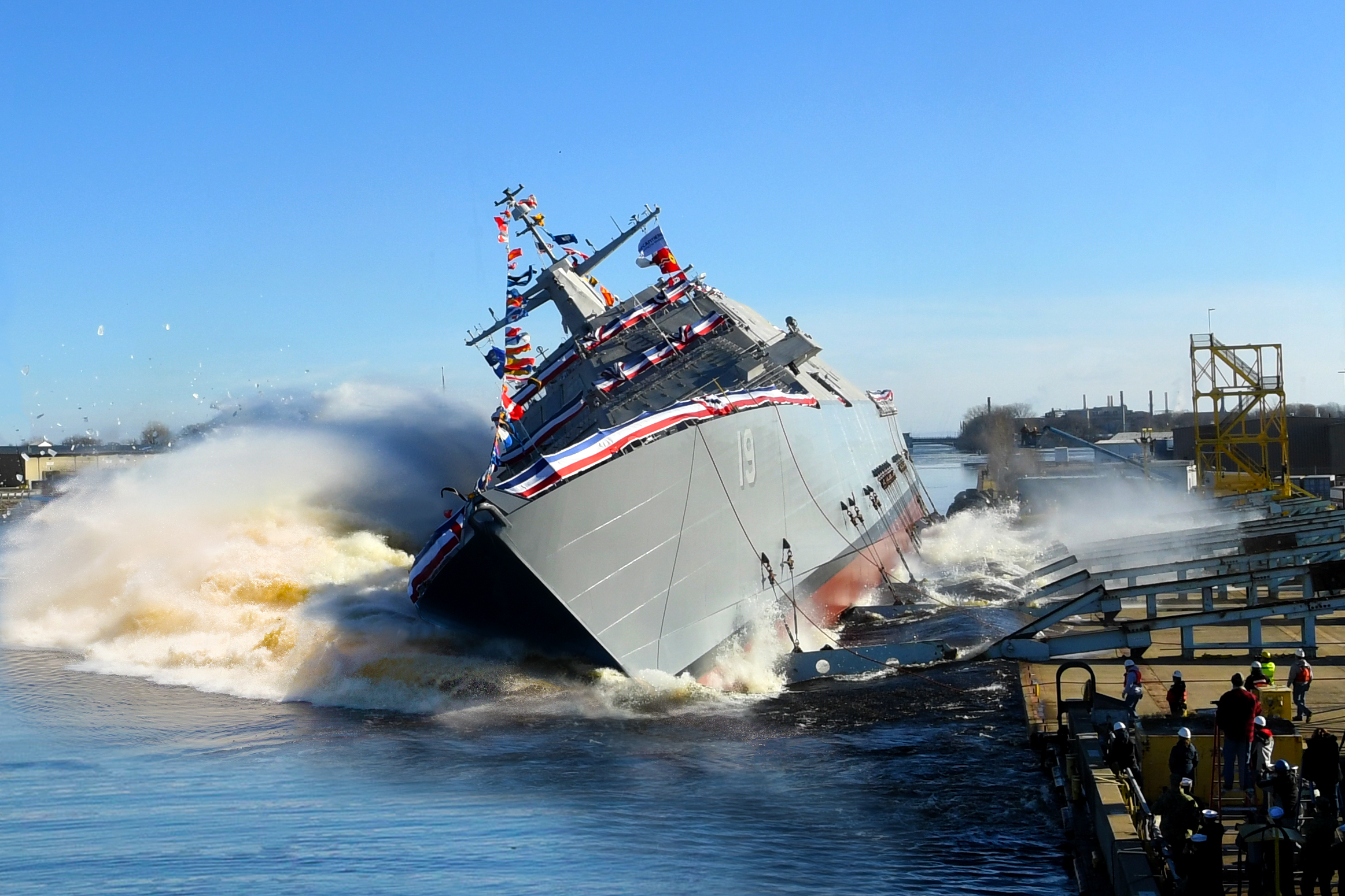 The U.S. Navy littoral combat ship USS St. Louis (LCS-19) launches sideways into the Menominee River following its christening at Marinette Marine, Wisconsin (USA), on 15 December 2018.